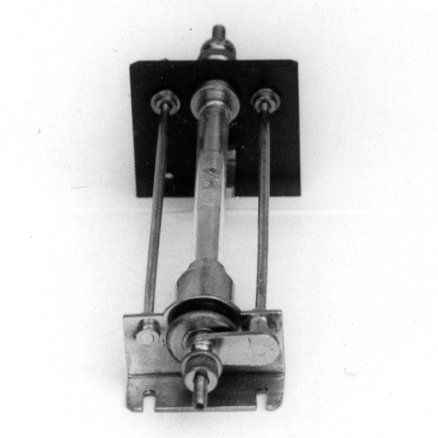 A coherer, an antique radio component consisting of a glass tube containing metal powder between two electrodes, built by French radio pioneer E. Ducretet. Coherers were an early type of radio wave detector, used in the first radio receivers around 1900.